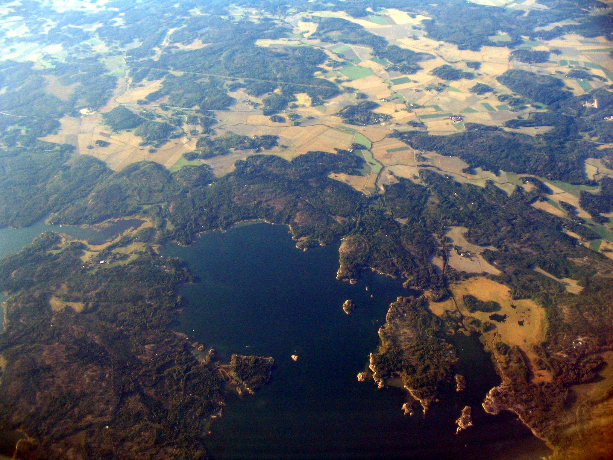 Degerby in Siuntio, Finland from air